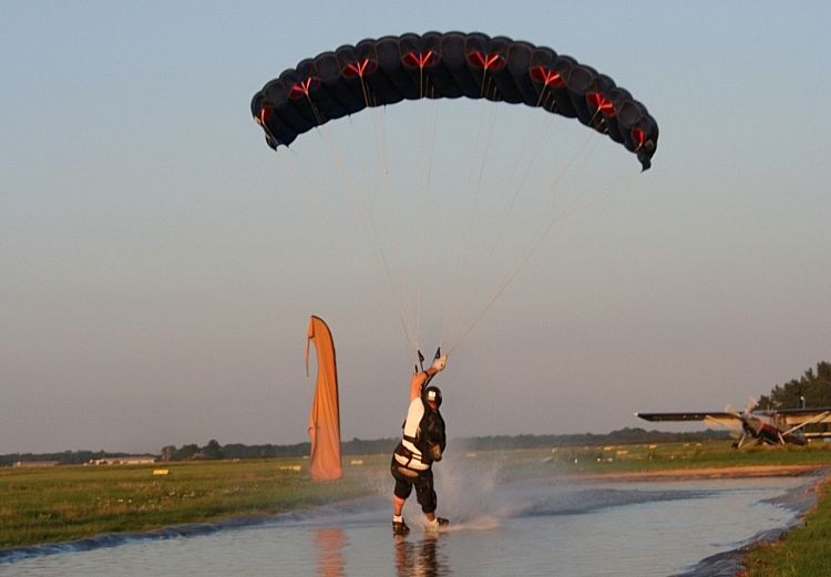 Swooper doing a Blindman